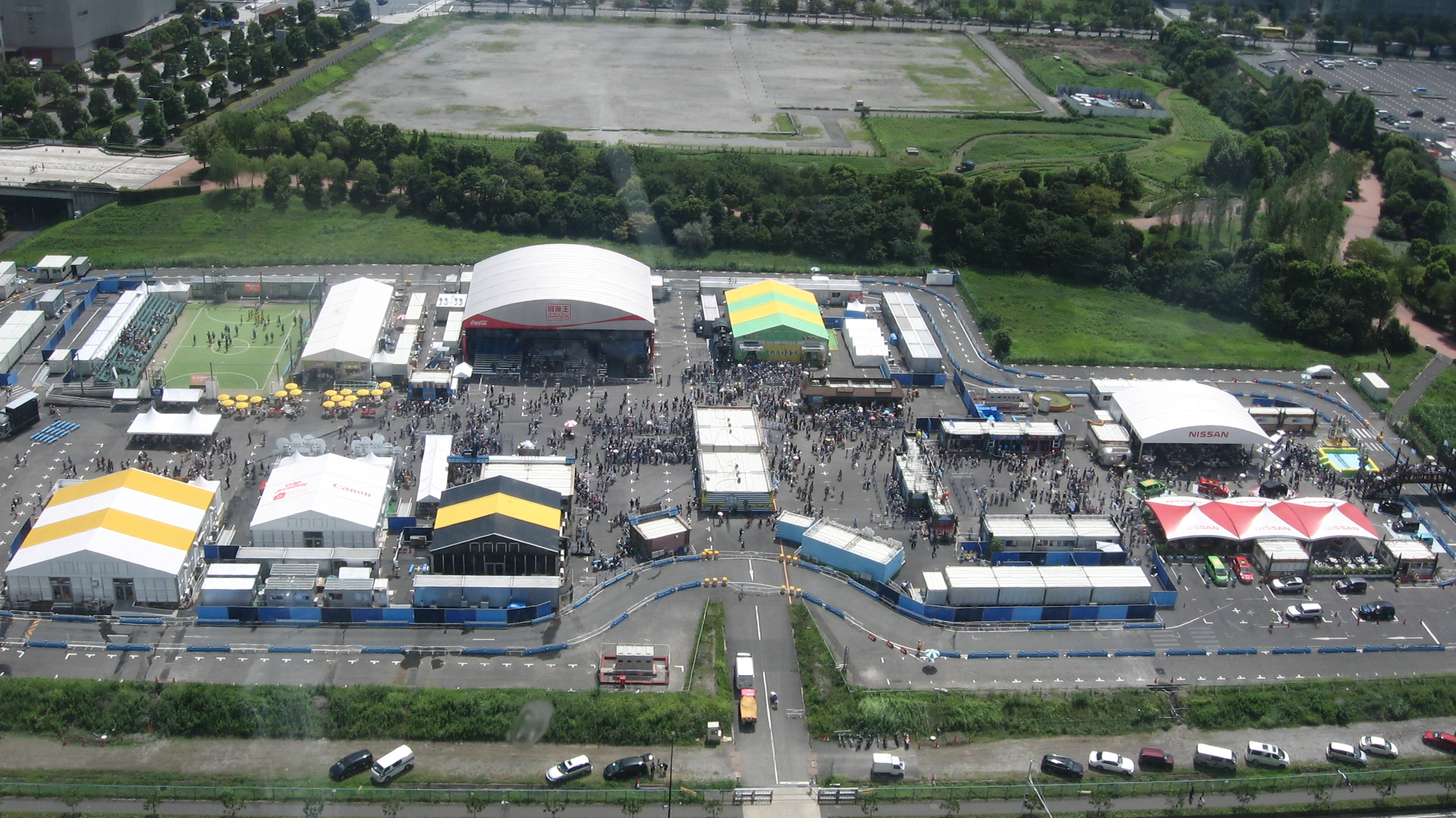 Odaiba Adoventure King "Adventure Land".